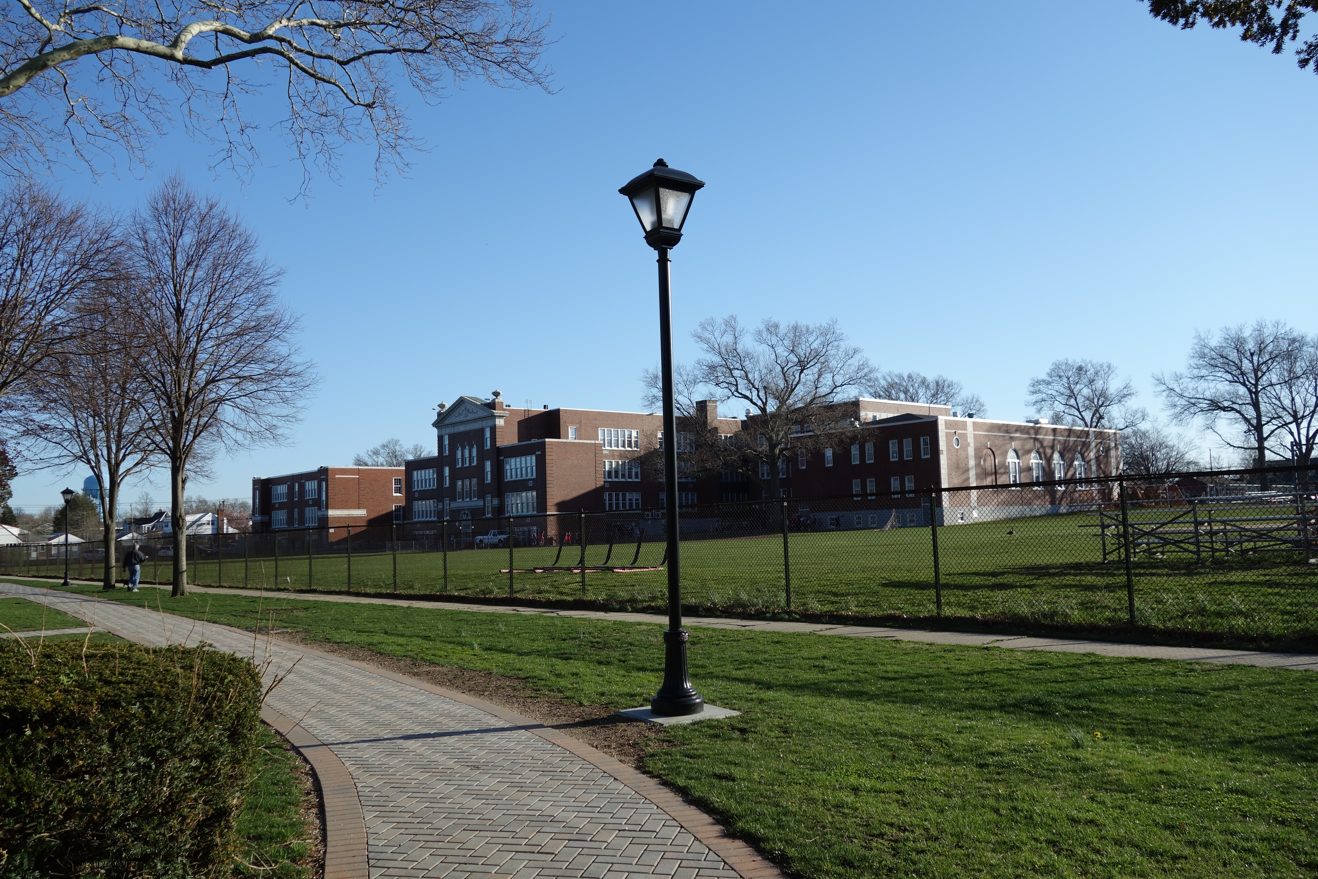 Looking southwest at Mineola Middle School from Mineola Memorial Park, at Saville Road and Jackson Avenue in Mineola, Nassau County, New York. The building was originally used for Mineola High School until 1962.